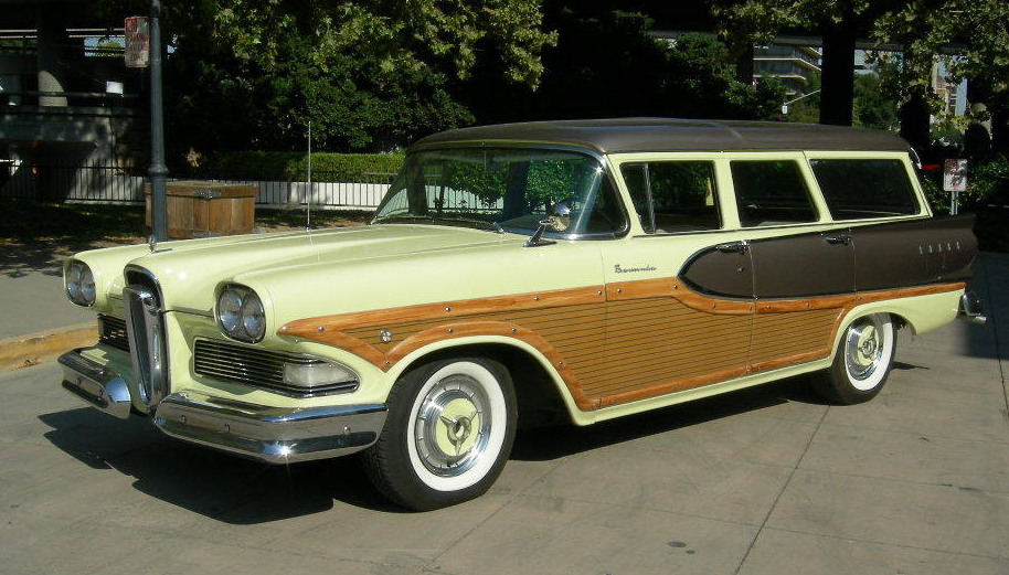 1958 Edsel Bermuda station wagon, 6 passenger model